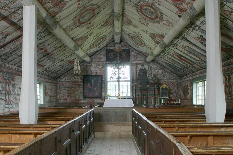 Interior of Ulvö gamla kapell on Ulvön island, Örnsköldsvik municipality, Sweden.